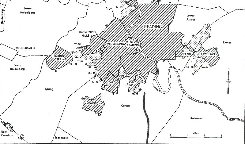 Cropped map